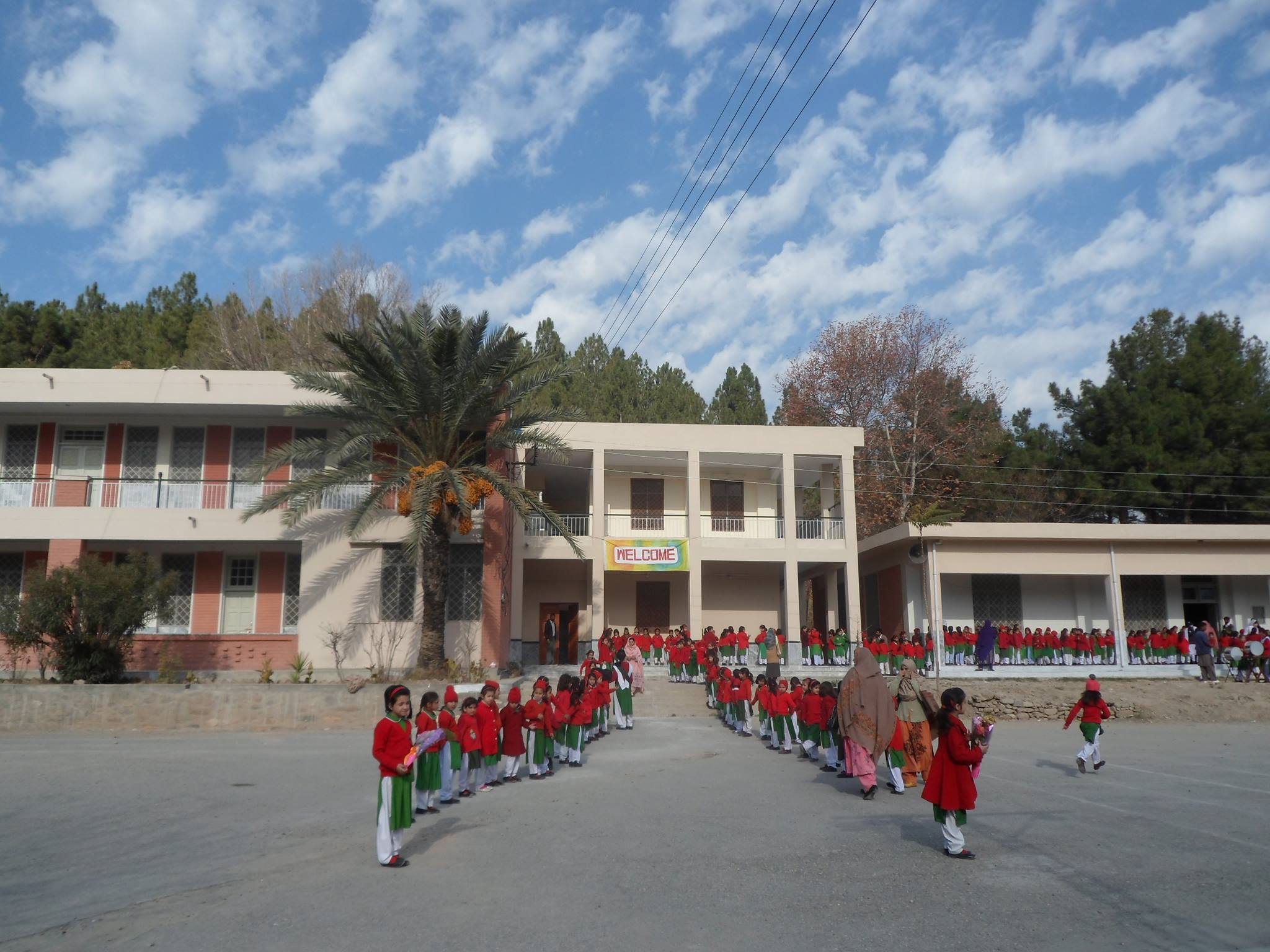 Sangota Public School, Children are busy in Marching